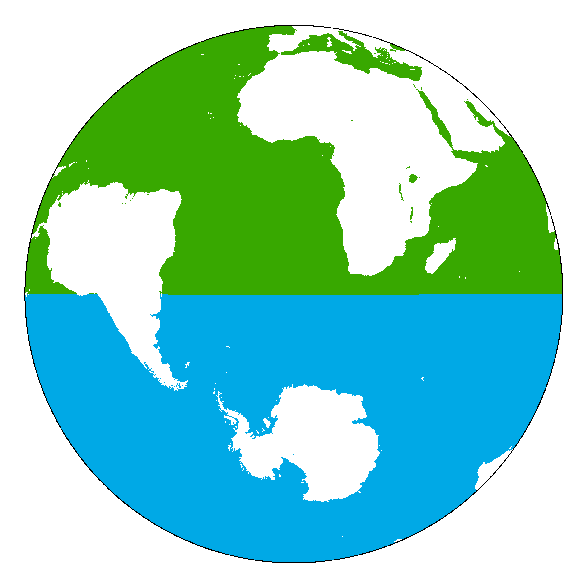 Land hemisphere on top, water hemisphere on bottom. Equal-area projection.